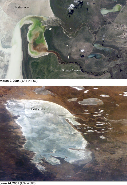 Two images of the Etosha pan in Namibia. The upper view (March 2006) shows the point where the Ekuma River flows into the salt lake; the lower regional image (June 2005) shows the same inlet—but dry—on the north shore of Etosha Pan. Both photos taken from the International Space Station.